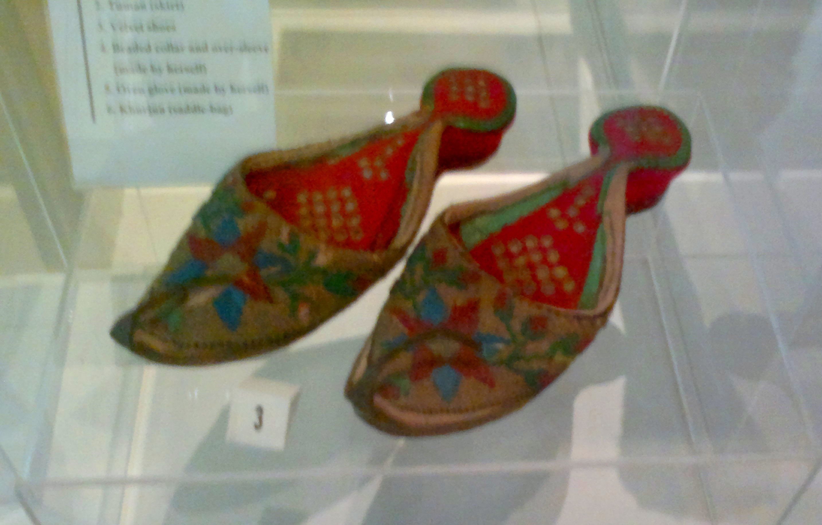 Shoes (charikhs) of Azerbaijani poetress Khurshidbanu Natavan in Museum of History of Azerbaijan, Baku